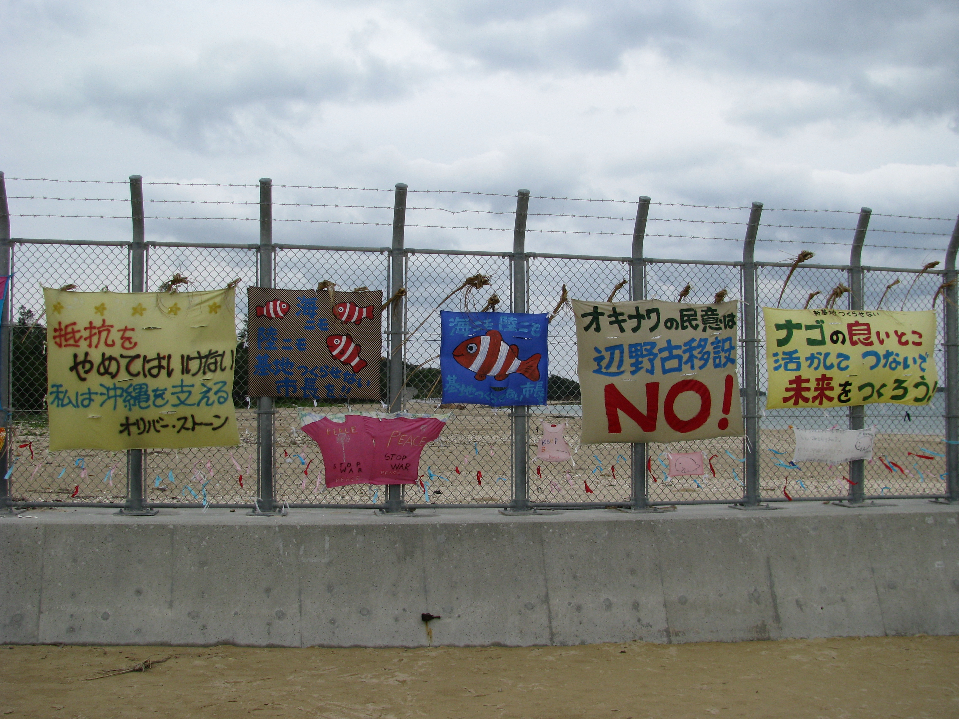 Border between Camp Schwab and Henoko, Nago in Okinawa